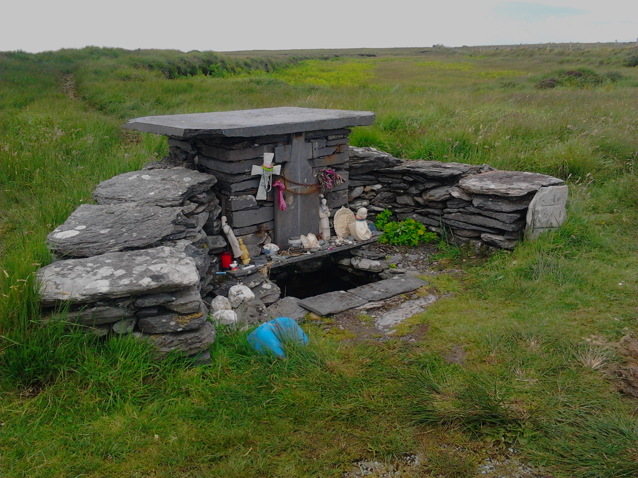 St. Brendan's Well on Valentia Island, Co. Kerry, Ireland.